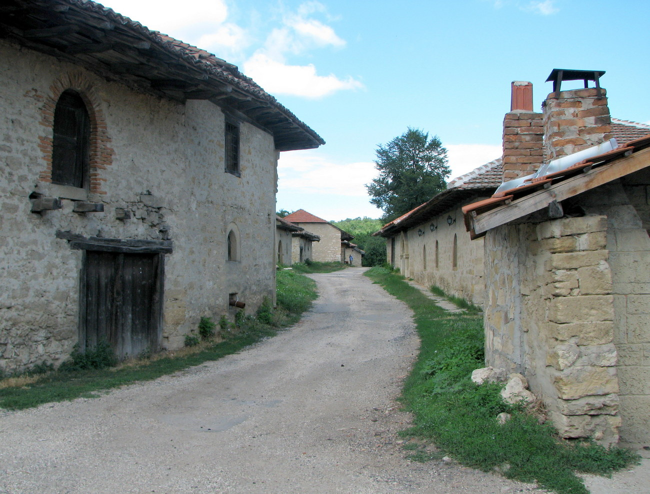 Rajacke Pivnice, Serbia